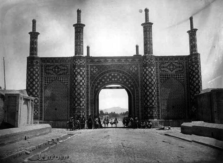 Darvazeh Ghazvin Gate of Tehran